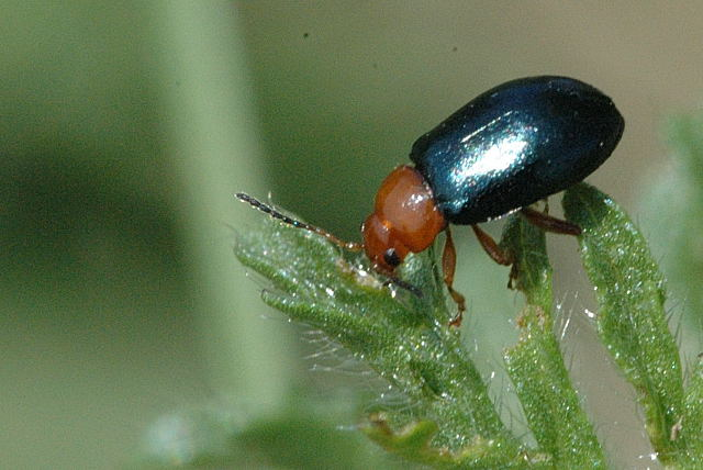 Picture taken in Commanster, Belgian High Ardennes . Species: Podagrica fuscicornis